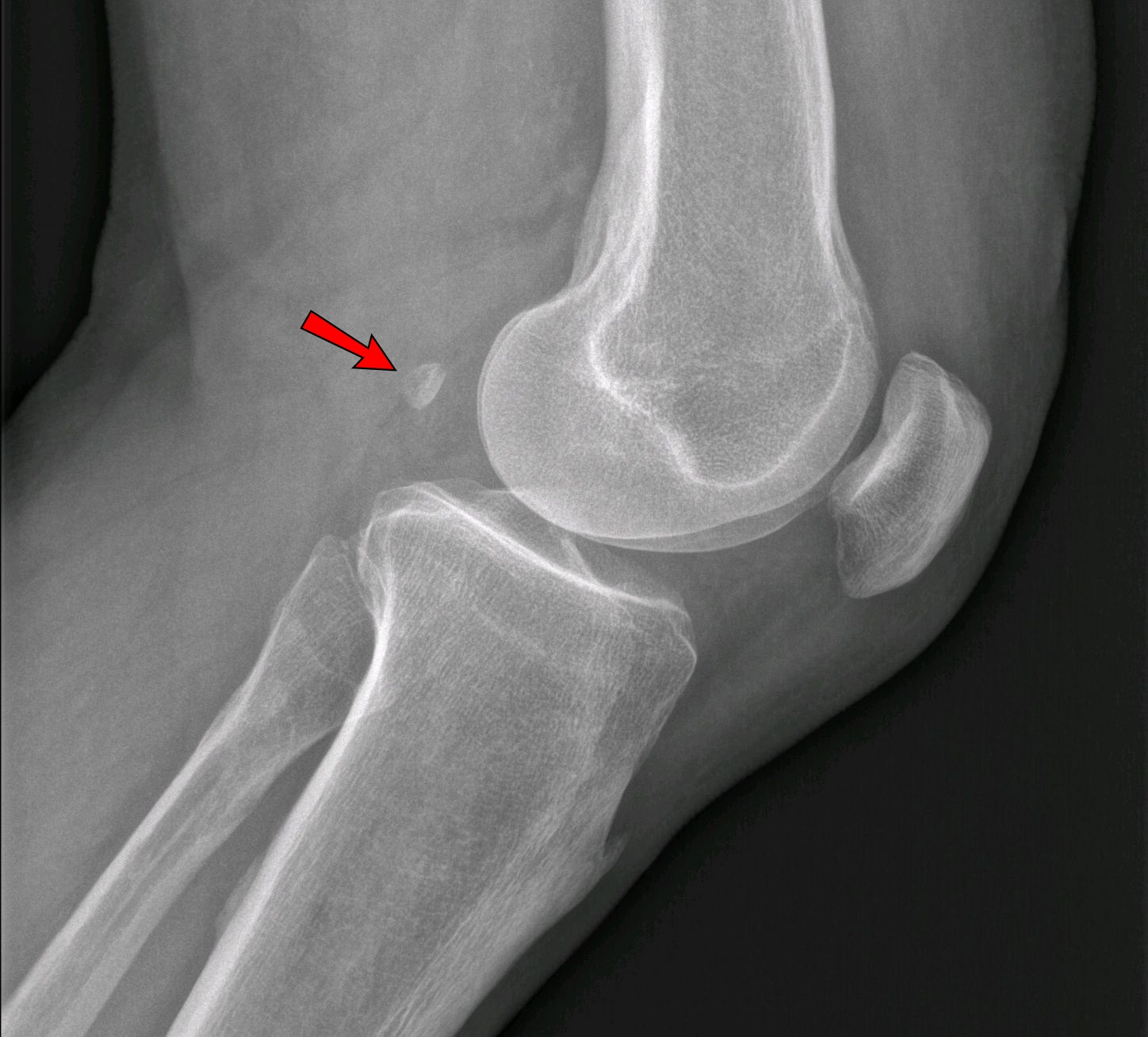 The fabella.